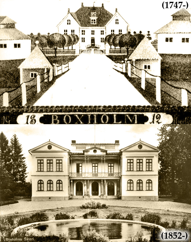 Boxholms Sateri korrekt